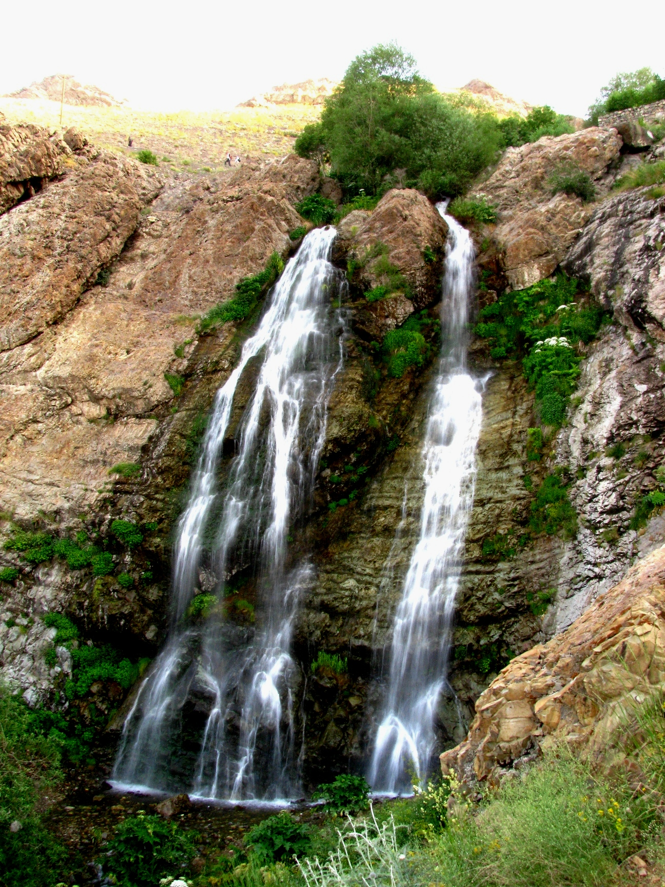 Twin Falls or Twin Waterfall (Persian: آبشار دوقلو Ābshār-e- Dogholoo), is a waterfall near Tehran.